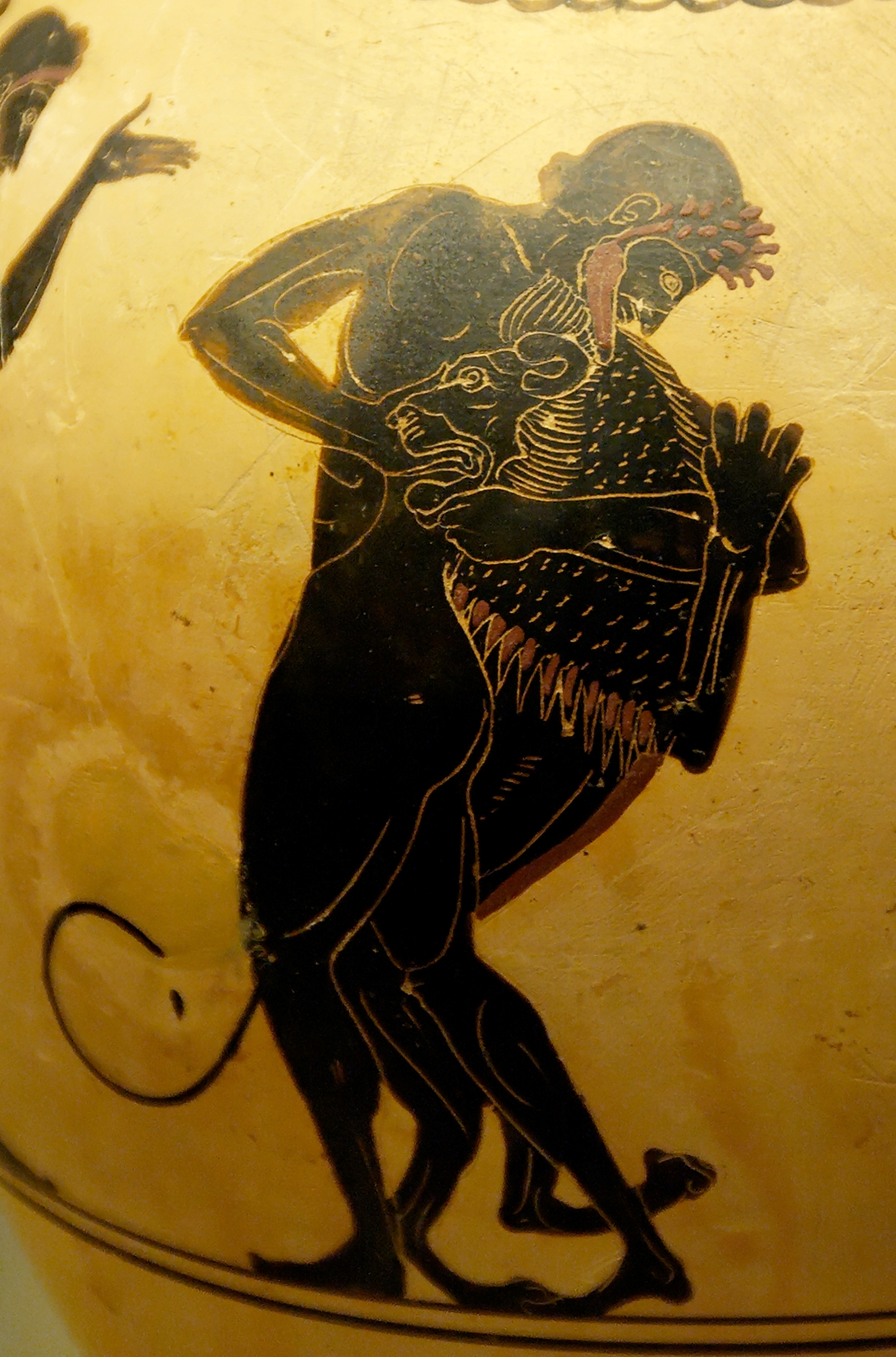 Herakles and the Nemean Lion. Attic white-ground black-figured oinochoe, ca. 520-500 BC. From Vulci.